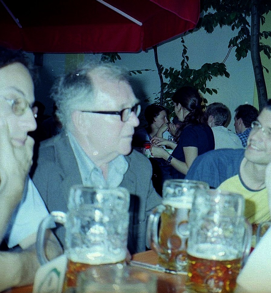 Stich in the Pub.